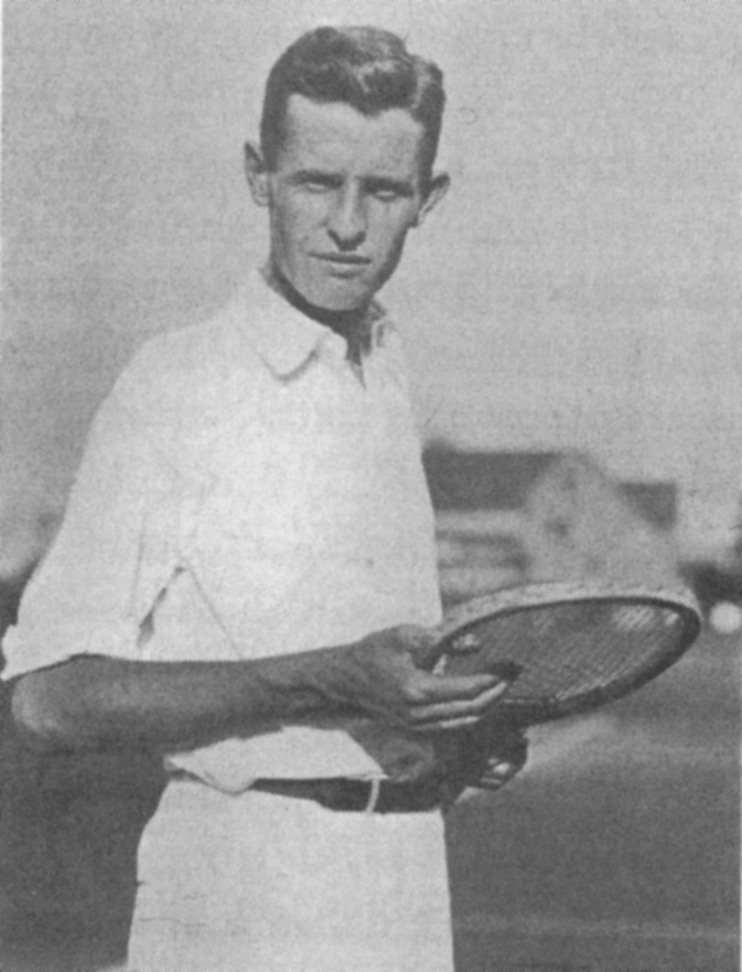 American tennis player Robert Lindley Muray